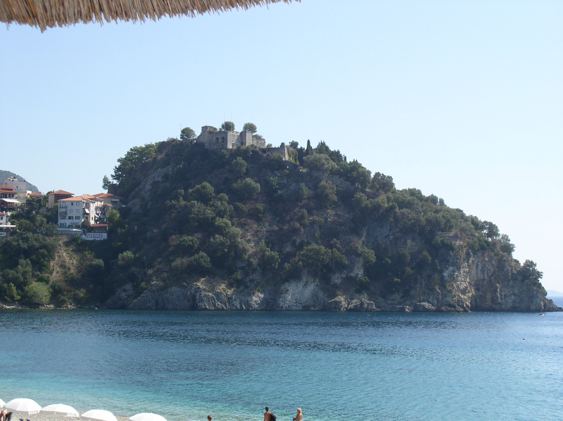 The fortress of Parga